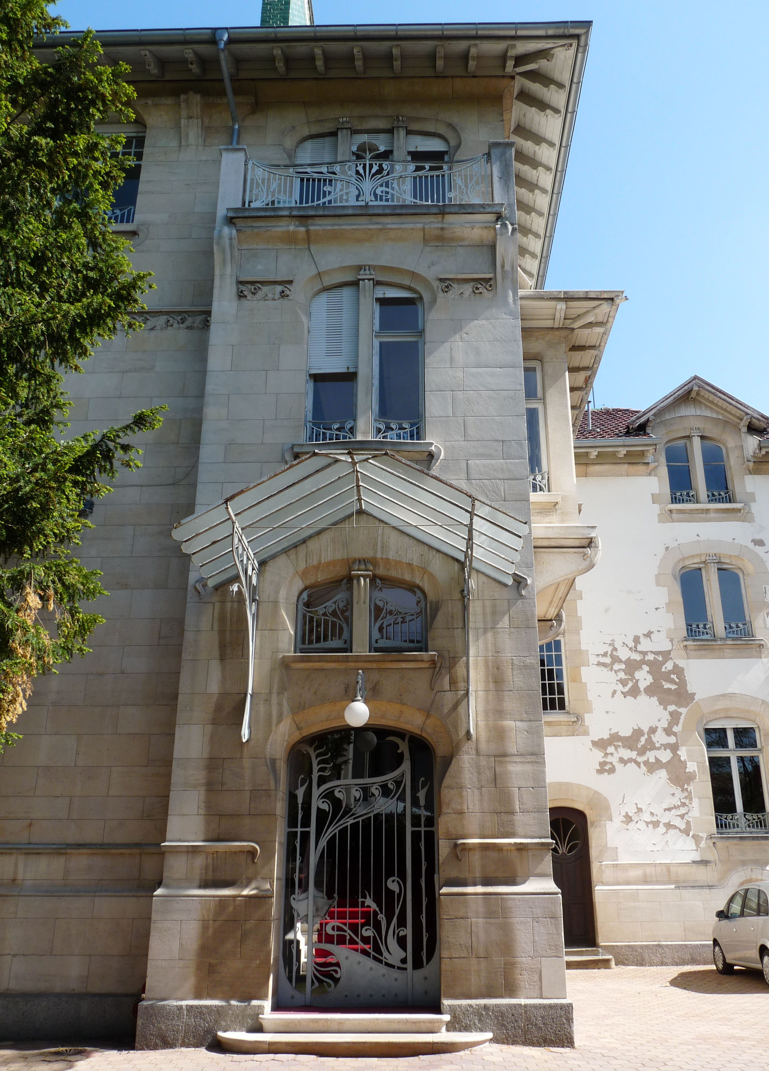 Entrance to European Audiovisual Observatory (Strasbourg)